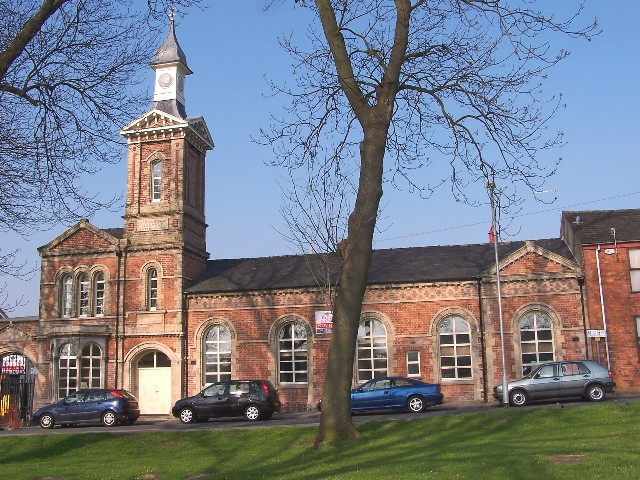 The Old Methodist School Rosemary Lane